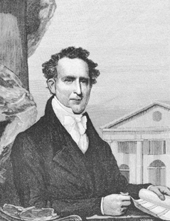 Josiah Quincy III, U.S. educator and political figure